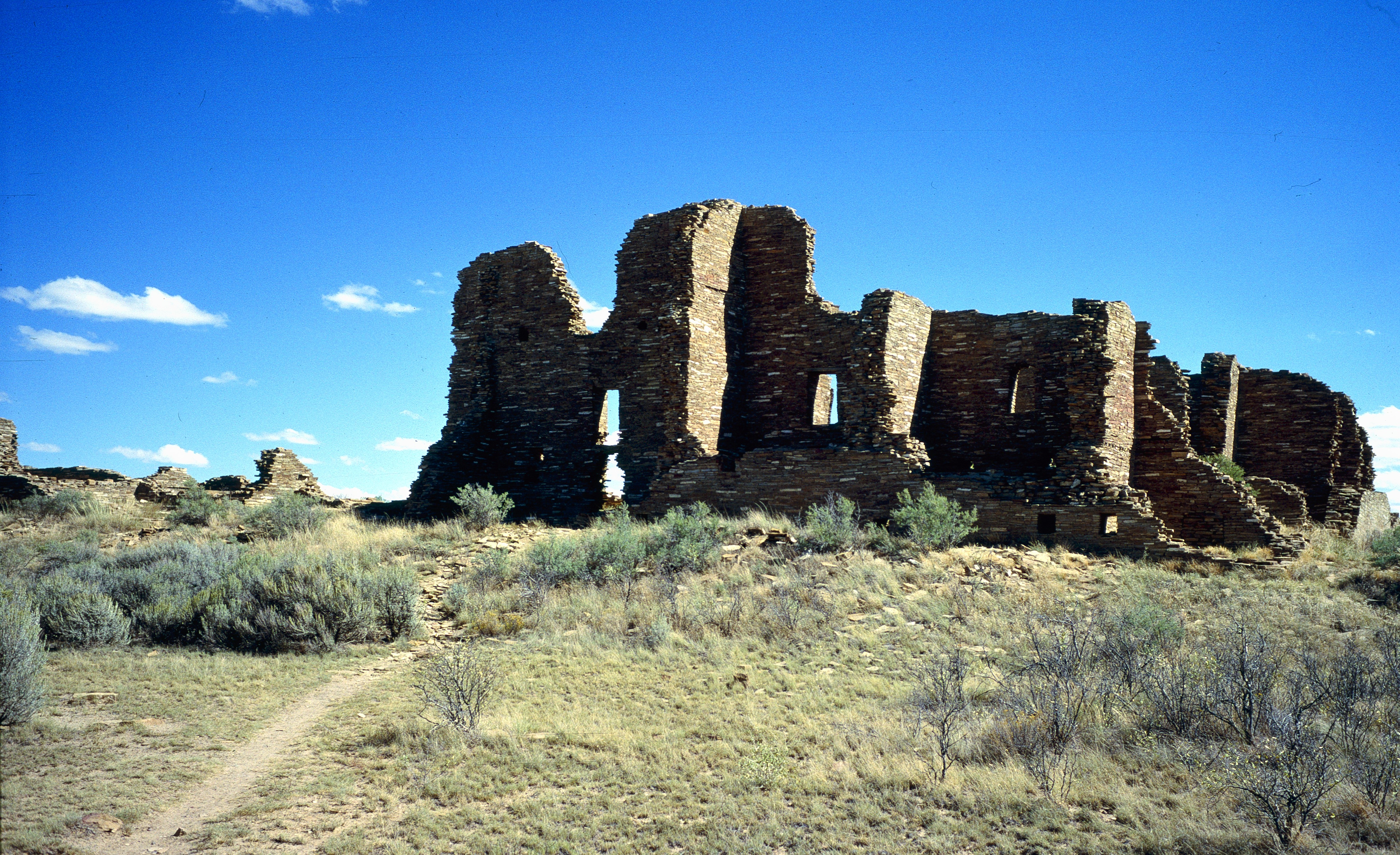 Pueblo Pintado, Chaco Canyon, New Mexico, U. S. A.